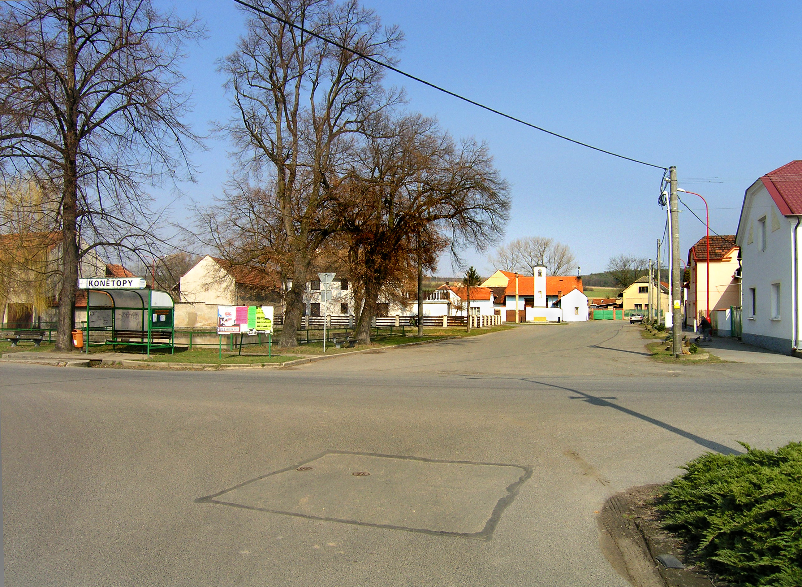 Common in Konětopy village, Czech Republic